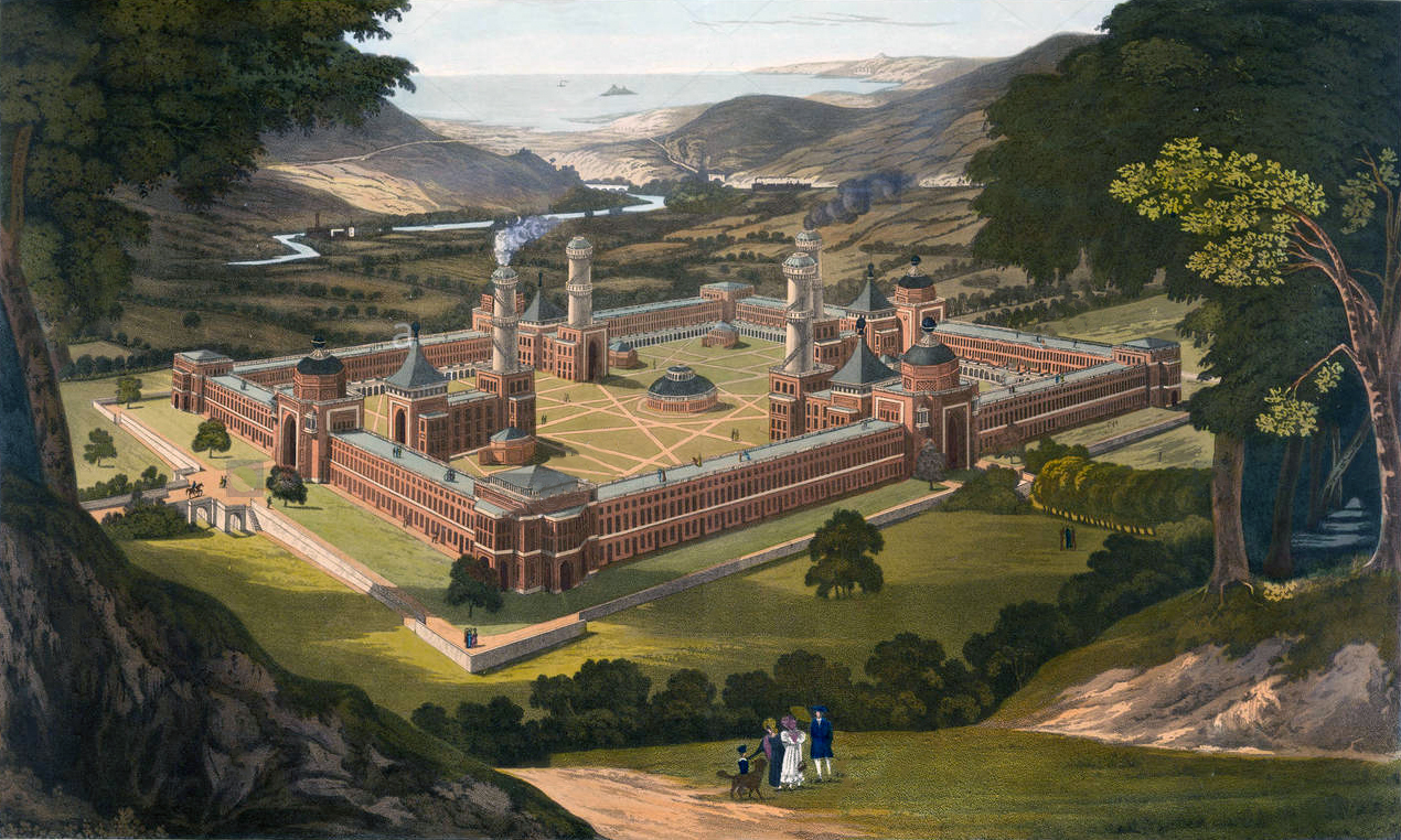 A bird's eye view of a community in New Harmony, Indiana, United States, as proposed by Robert Owen. Engraving by F. Bate, London 1838.